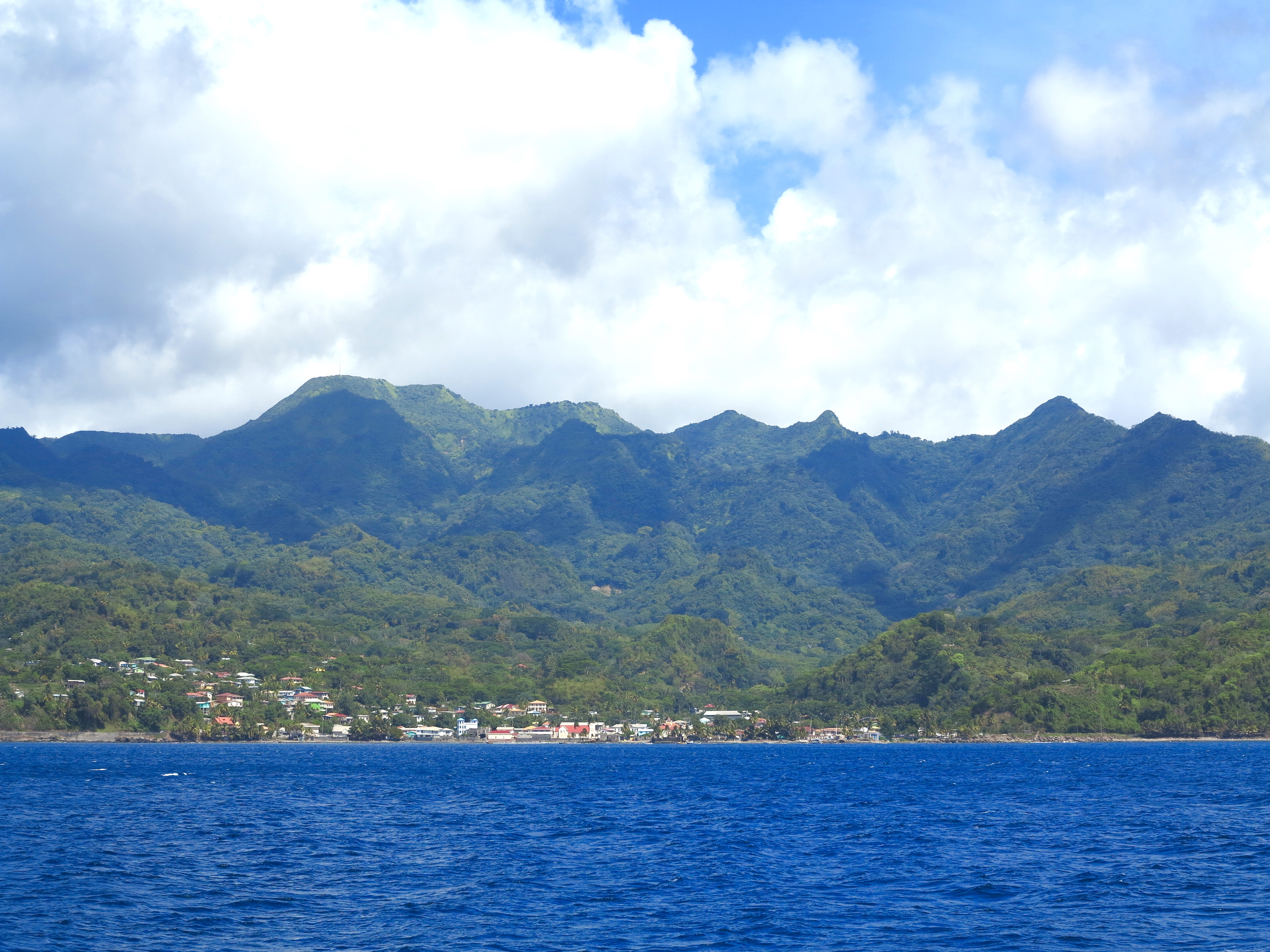 Mount Saint Catherine seen from off the coast of Victoria on Grenada's western coast.